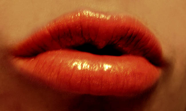 Lipstick on a woman's lips